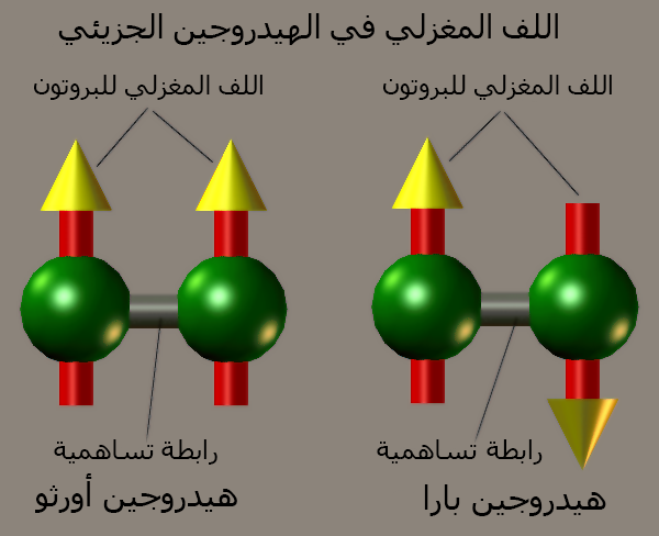 A simple image of spin isomers of molecular hydrogen.